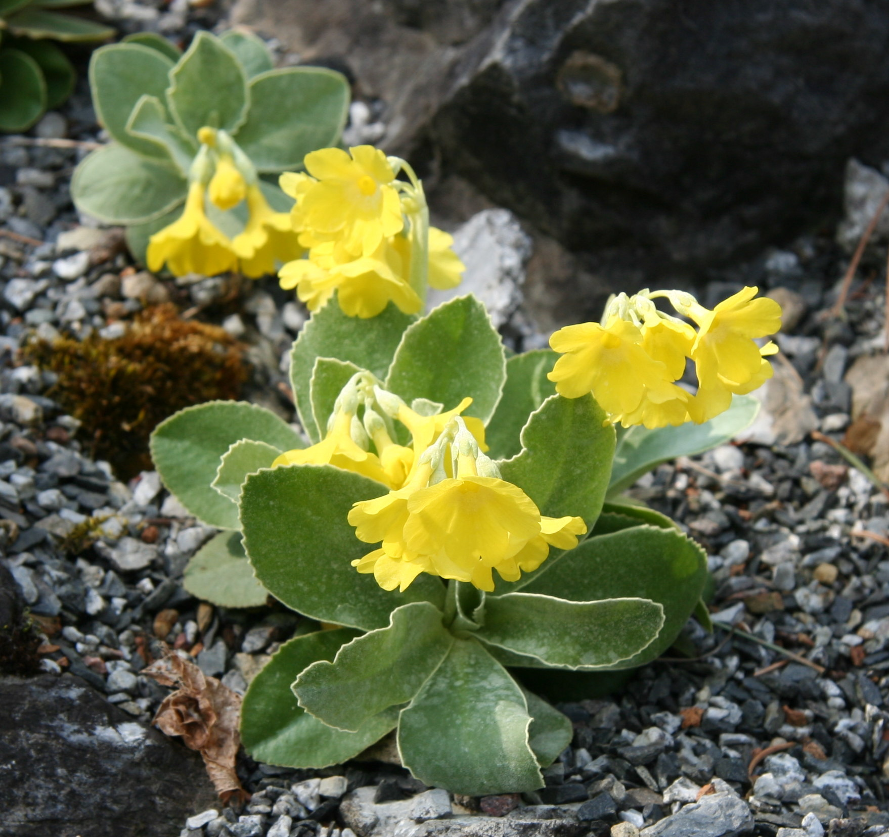 Primula palinuri at the Dresden Botanical Garden (Botanischer Garten der Technischen Universität Dresden)